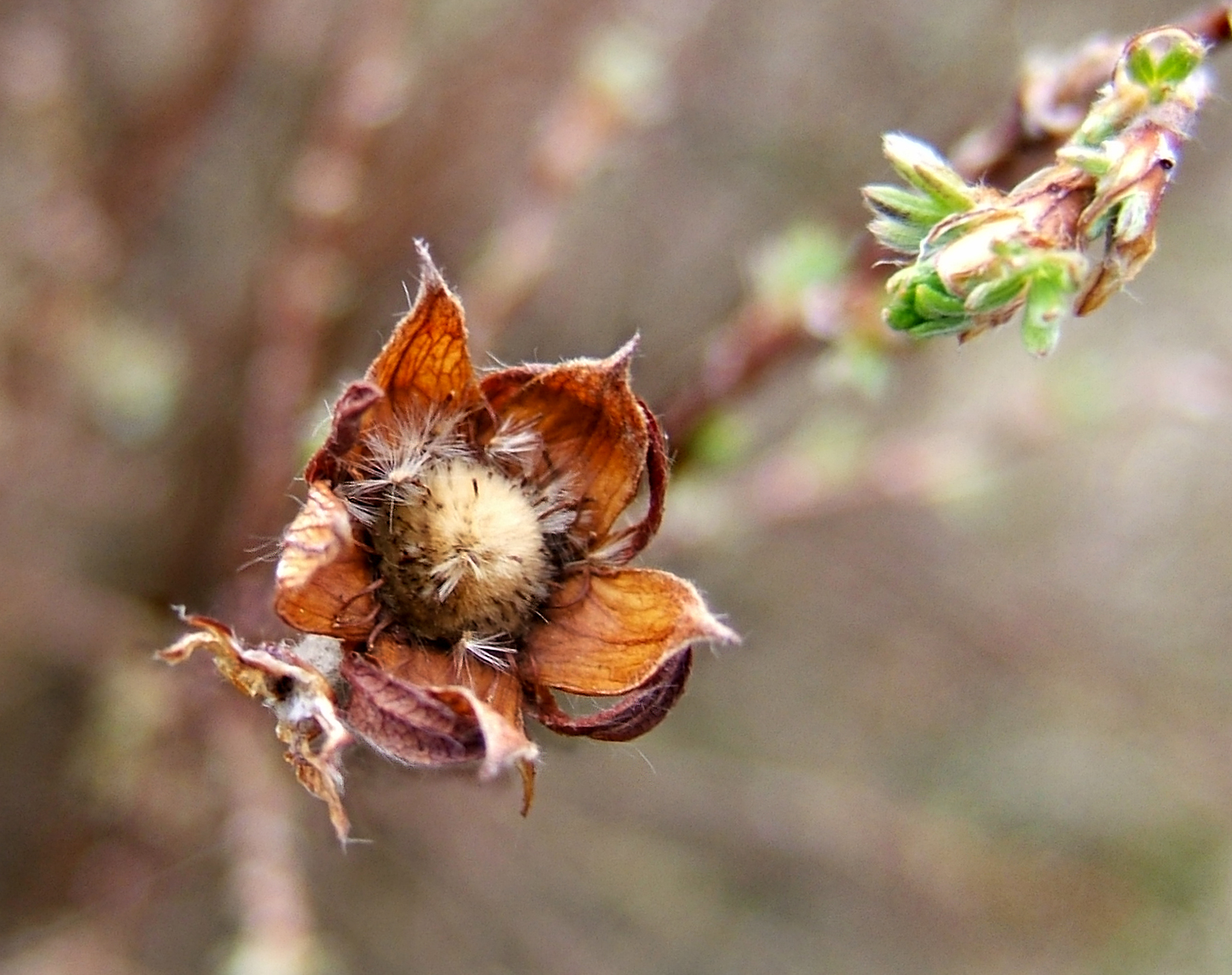 Shrubby Cinquefoil Hornjoserbsce: Kerkojty porstnik